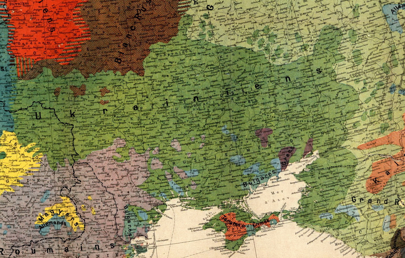 A detail from a Swiss Ethnographic map of Europe published in 1918. Original title of the map: Carte ethnographique de l'Europe. For the detailed bibliographic information see this page (Centre Excursionista de Catalunya)